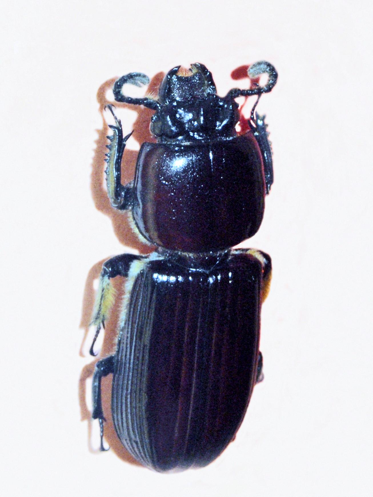 Museum specimen of Passalus interruptus. On display at the Museo Civico di Storia Naturale di Milano